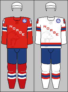 The home and away jerseys of the Norwegian national ice hockey team (without the actual symbol of the Norwegian Ice Hockey Federation in the middle).